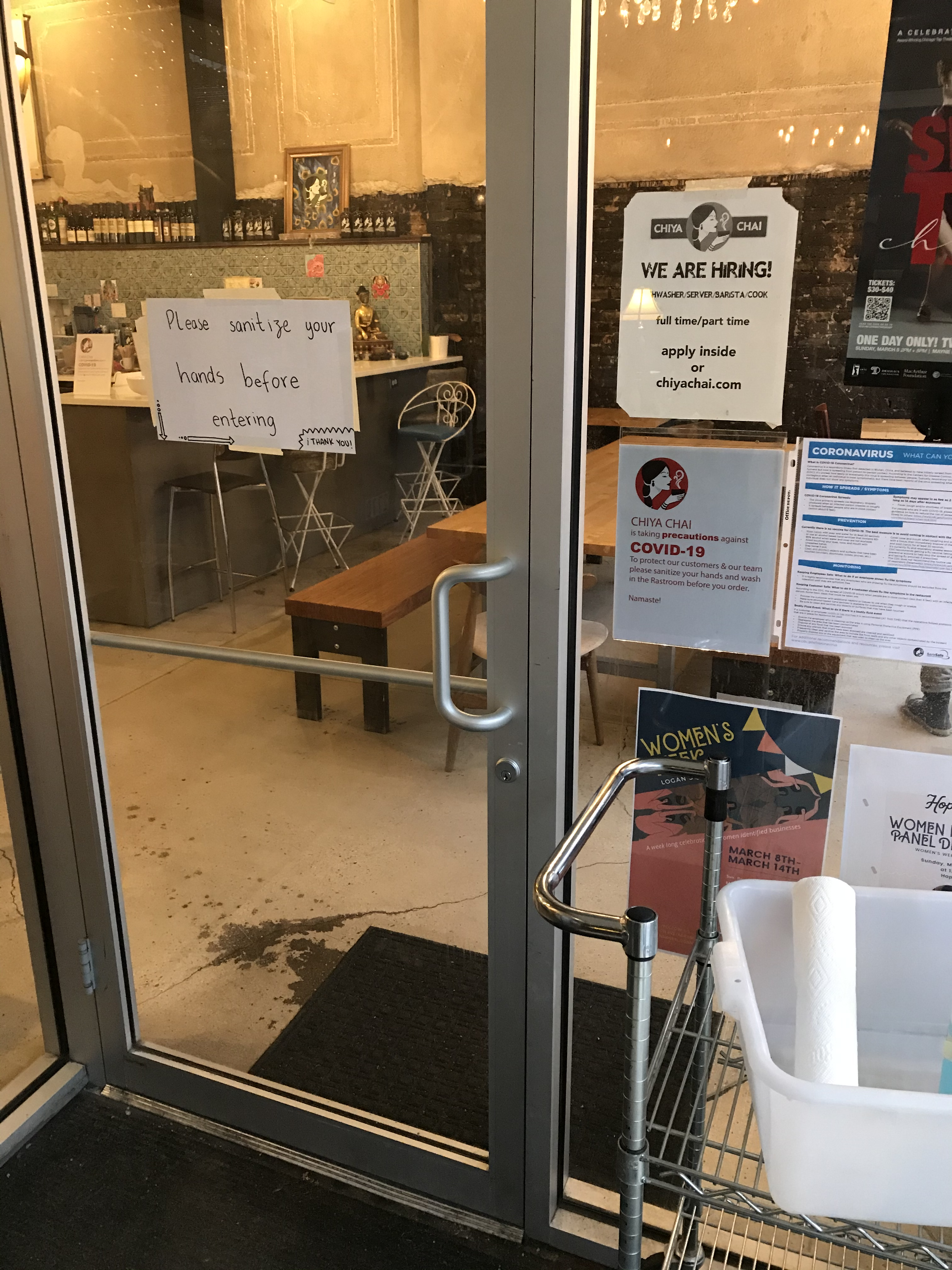 Sign at entrance to Chiya Chai restaurant in Logan Square, Chicago urging Covid-19 caution